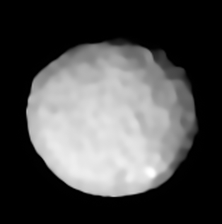 VLT's SPHERE spies rocky worlds From the description at File:Potw1749a.tif: These images were taken by ESO's SPHERE (Spectro-Polarimetric High-Contrast Exoplanet Research) instrument, installed on the Very Large Telescope at the Paranal Observatory, Chile. These strikingly-detailed views reveal four of the millions of rocky bodies in the main asteroid belt, a ring of asteroids between Mars and Jupiter that separates the rocky inner planets of the Solar System from the gaseous and icy outer planets. Clockwise from top left, the asteroids shown here are 29 Amphitrite, 324 Bamberga, 2 Pallas, and 89 Julia. Named after the Greek goddess Pallas Athena, 2 Pallas is about 510 kilometres wide. This makes it the third largest asteroid in the main belt and one of the biggest asteroids in the entire Solar System. It contains about 7% of the mass of the entire asteroid belt — so hefty that it was once classified as a planet. A third of the size of 2 Pallas, 89 Julia is thought to be named after St Julia of Corsica. Its stony composition led to its classification as an S-type asteroid. Another S-type asteroid is 29 Amphitrite, which was only discovered in 1854. 324 Bamberga, one of the largest C-type asteroid in the asteroid belt, was discovered even later: Johann Palisa found it in 1892. Today, it is understood that C-type asteroids may actually be bodies from the outer Solar System following the migration of the giant planets. As such, they may contain ice in their interior. Although the asteroid belt is often portrayed in science fiction as a place of violent collisions, packed full of large rocks too dangerous for even the most skilled of space pilots to navigate, it is actually very sparse. In total, the asteroid belt contains just 4% of the mass of the Moon, with about half of this mass contained in the four largest residents: Ceres, 4 Vesta, 2 Pallas, and 10 Hygiea.